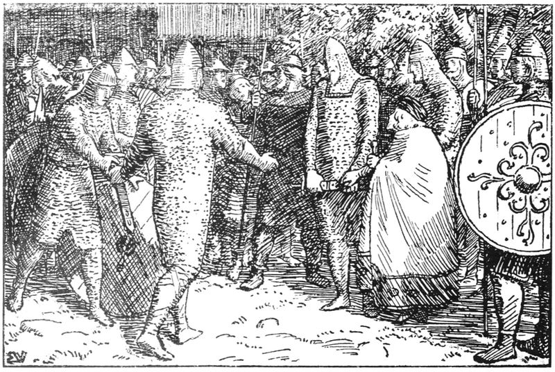 King Inge reconciles Erling Skakke and Gregorius Erik Werenskiold: Illustration for Håkon Herdebreis saga, Heimskringla 1899-edition. «Kong Inge forliker Erling Skakke og Gregorius.»